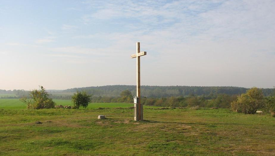 Hagelberg (peak) in Hagelberg. The village Hagelberg is a part of the town Belzig in the district Potsdam Mittelmark, state Brandenburg, Germany. The village appertains to the nature park Naturpark Hoher Fläming. The eponymous Hagelberg (hill) is with a height of total 200 meters the highest elevation in the Fläming. There are two monuments commemorating to the prussian victory in the „Battle nearby Hagelberg“ in 1813 against Napoleon.